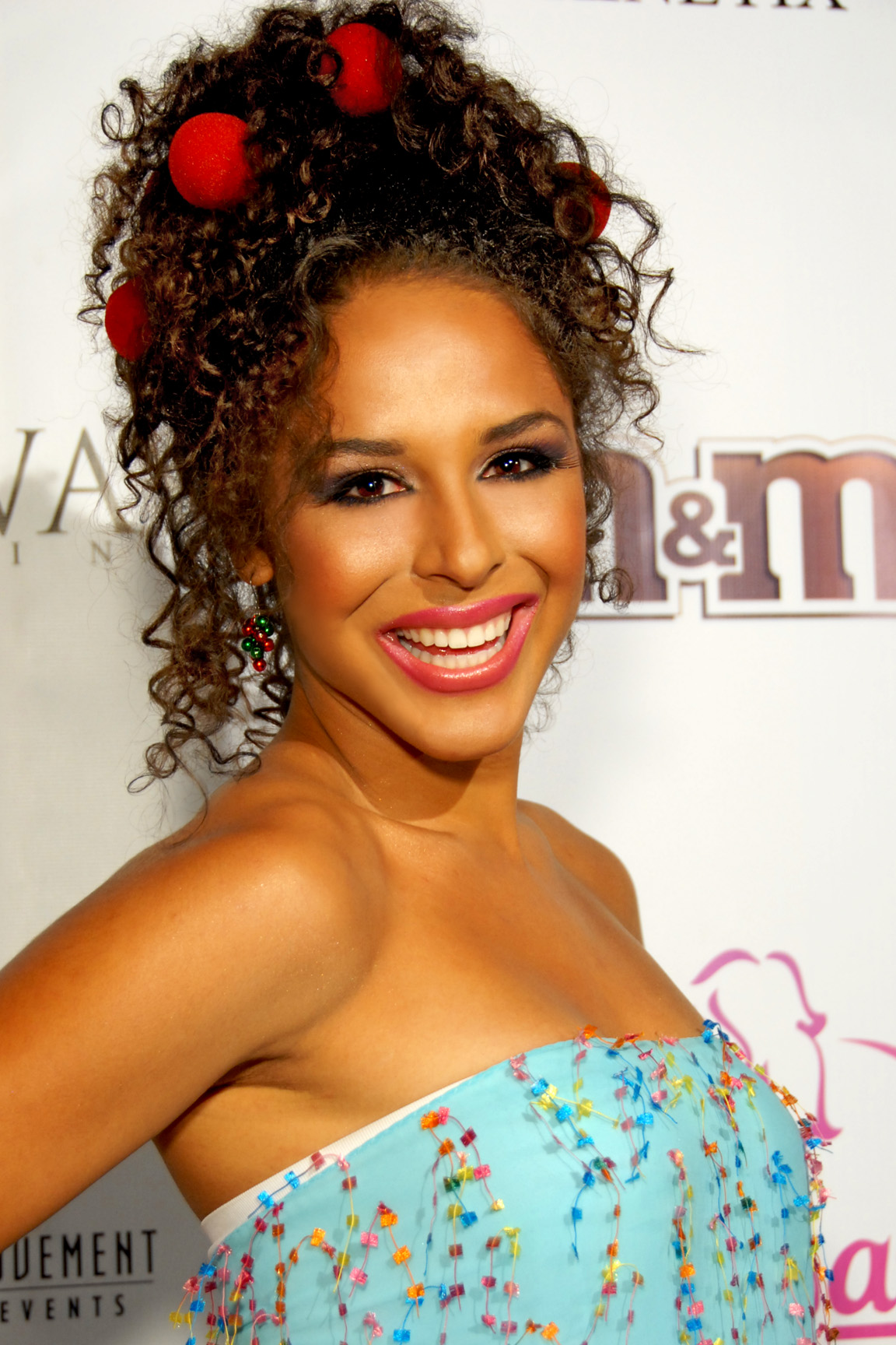 Brittany Bell attending the Benchwarmer Halloween Party - Green Door, Hollywood, CA on October 30, 2010 - Photo by Glenn Francis of